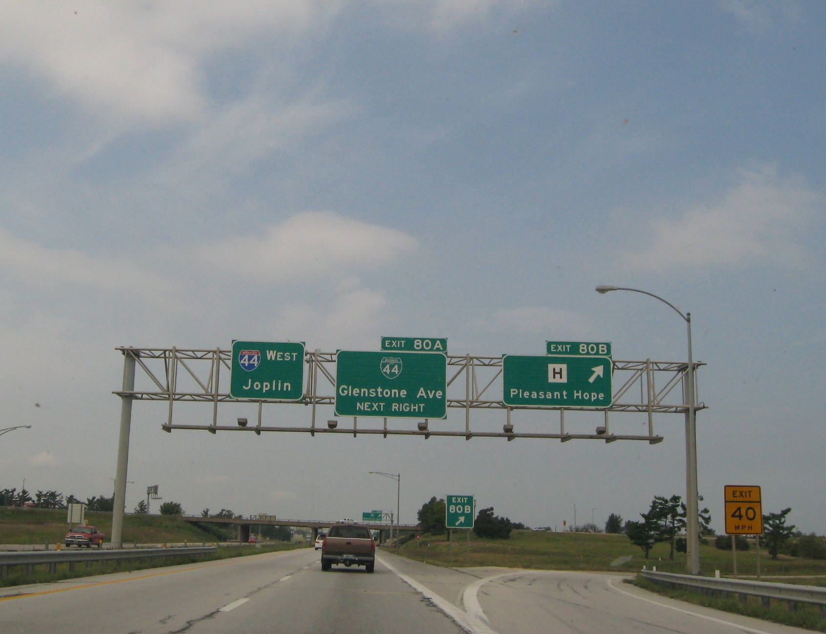 I-44 west in Springfield, Missouri.